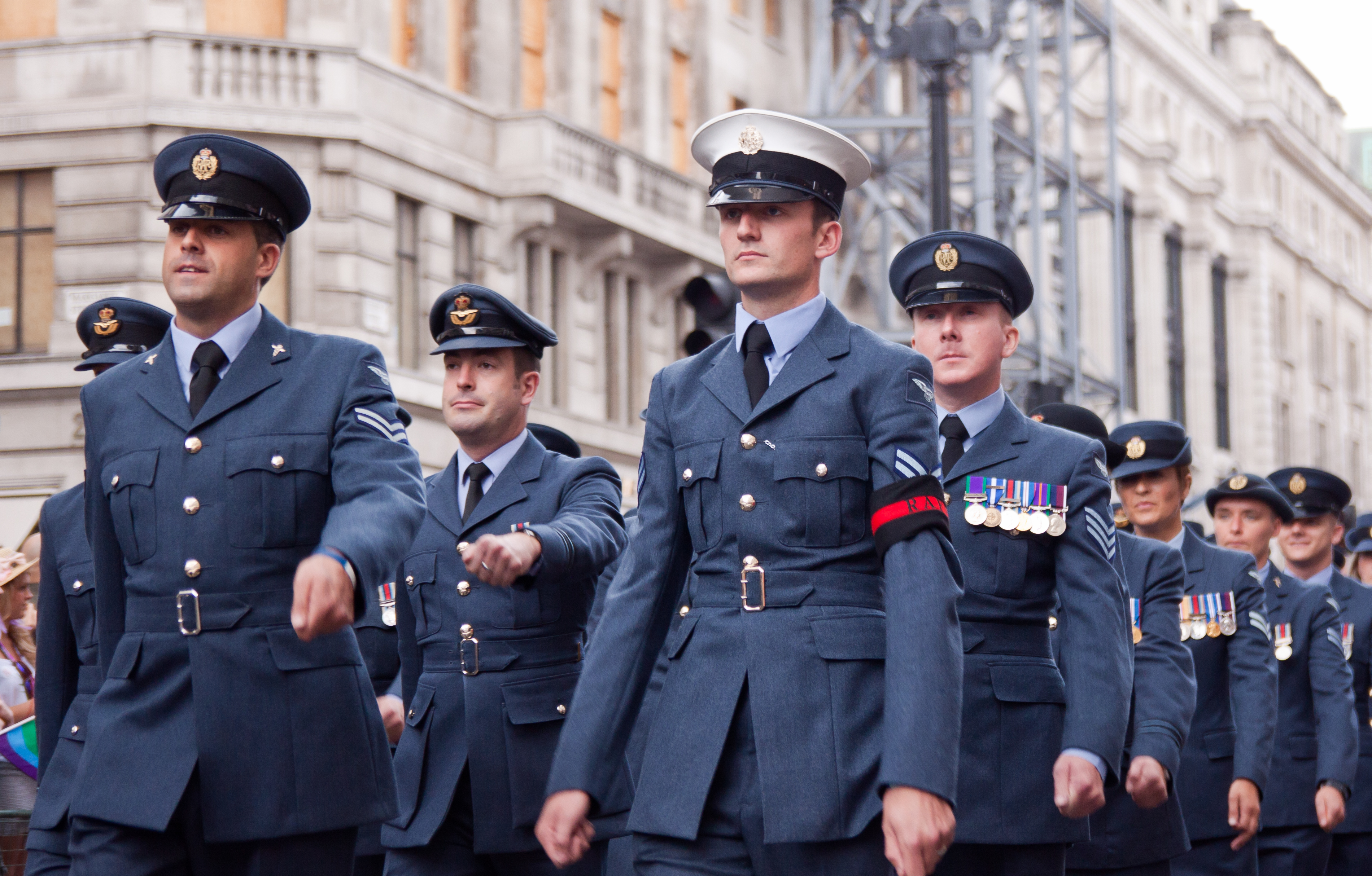 Royal Airforce.